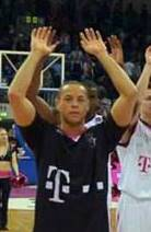 taken during professional basketball game in Germany